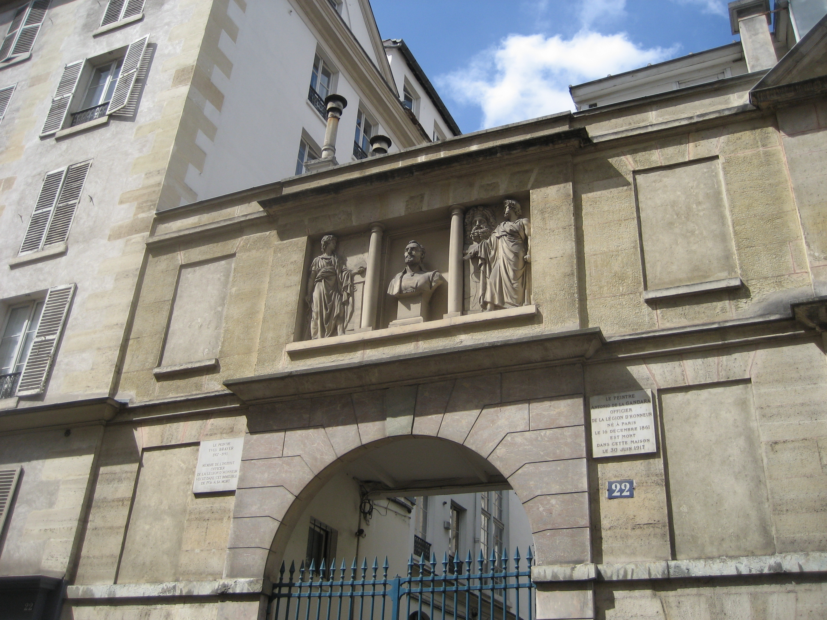 Entrance of 22 Rue Monsieur-le-Prince in Paris. Plaques in remembrance of the painters Antonio de la Gandara and Yves Brayer